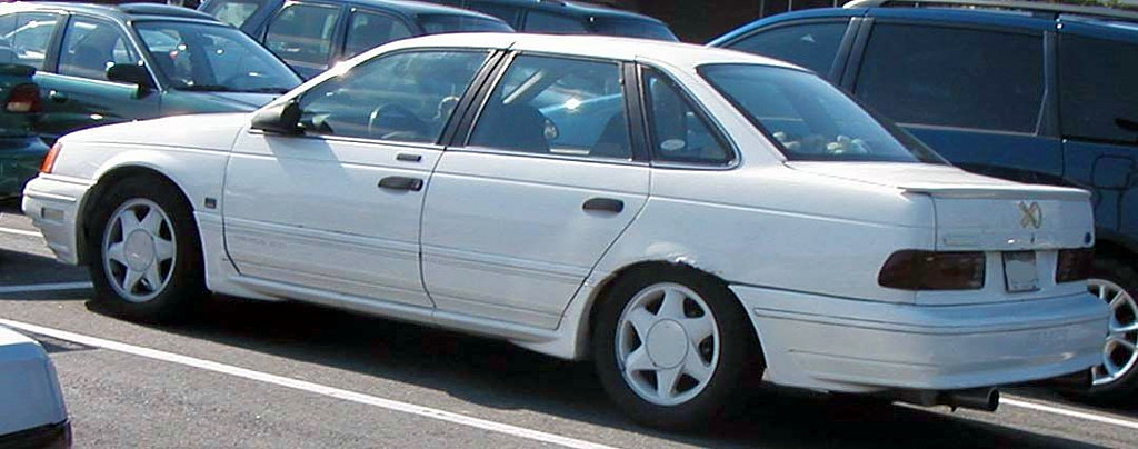 1989-1991 Ford Taurus SHO photographed in USA.